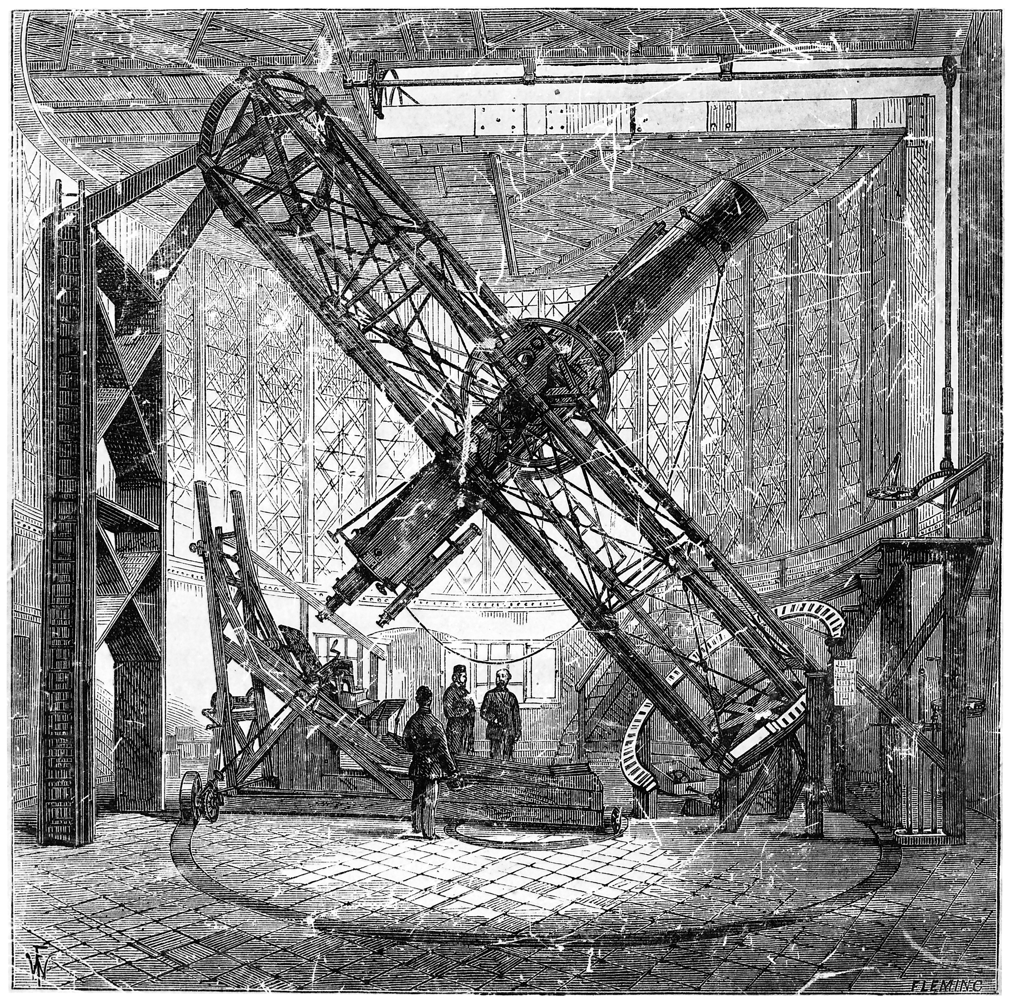 The great equatorial telescope in the Dome at Greenwich. Wellcome Images Keywords: Telescopes